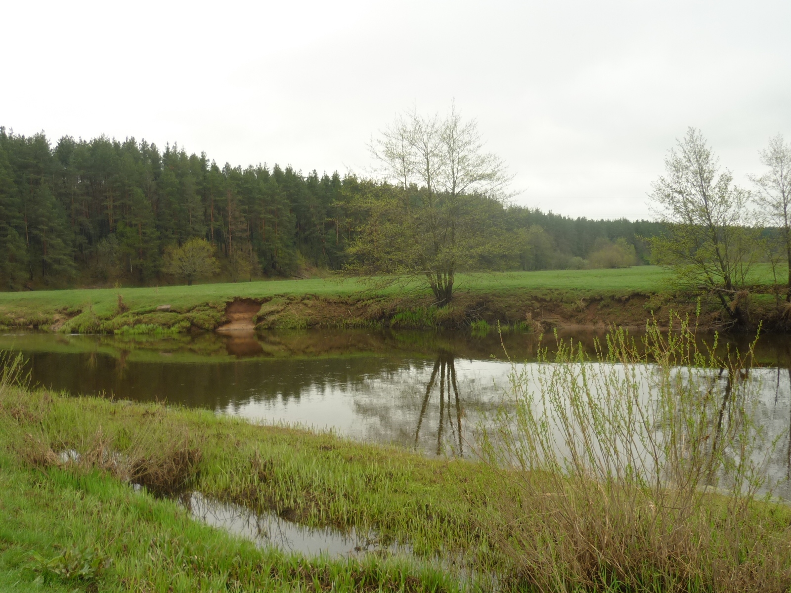 be:Рака Проня River Pronia in Slavgorod district, Mogilev region